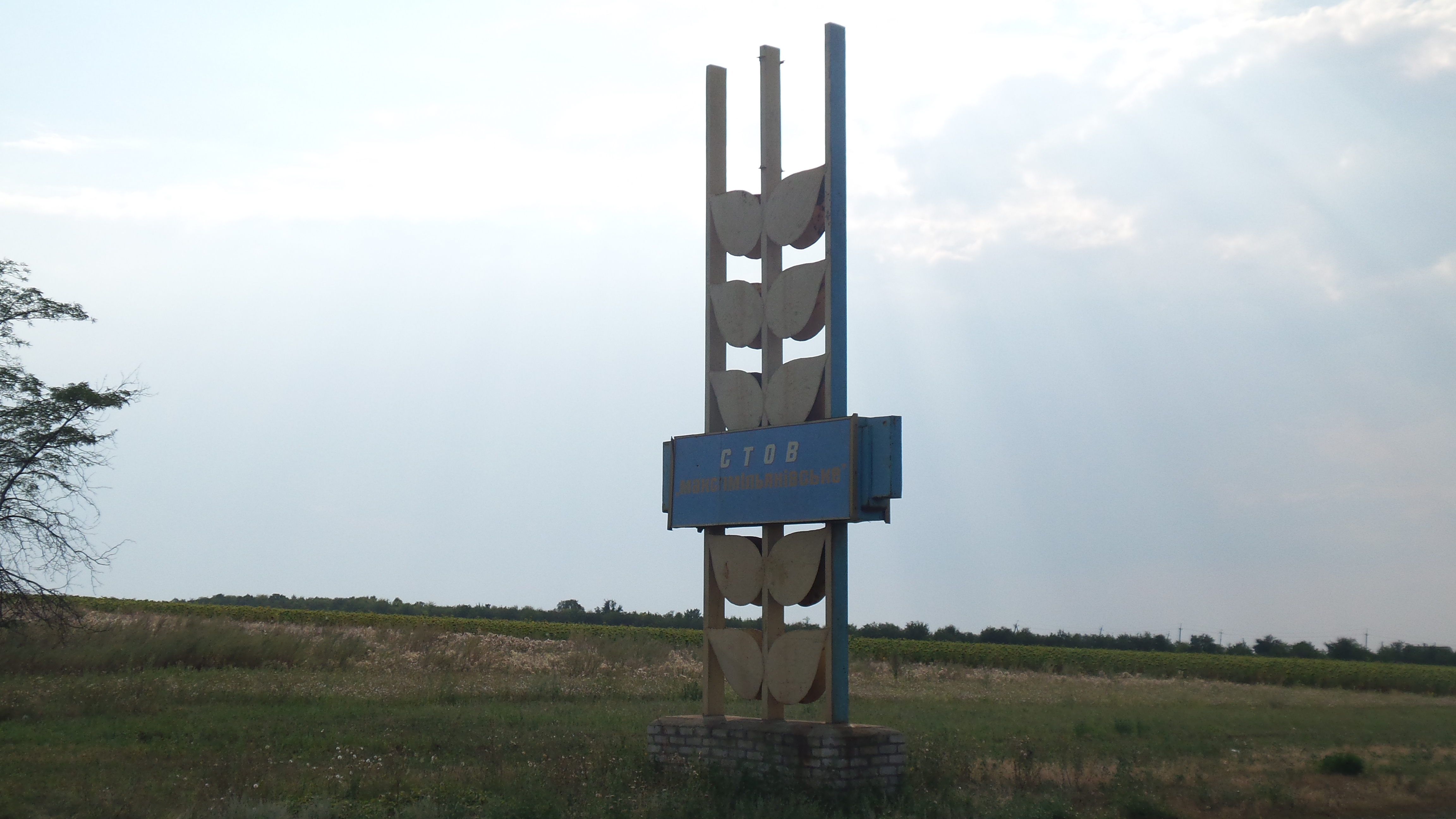 Maksimilyanivka village, Maryinskyi district, Donetsk region.